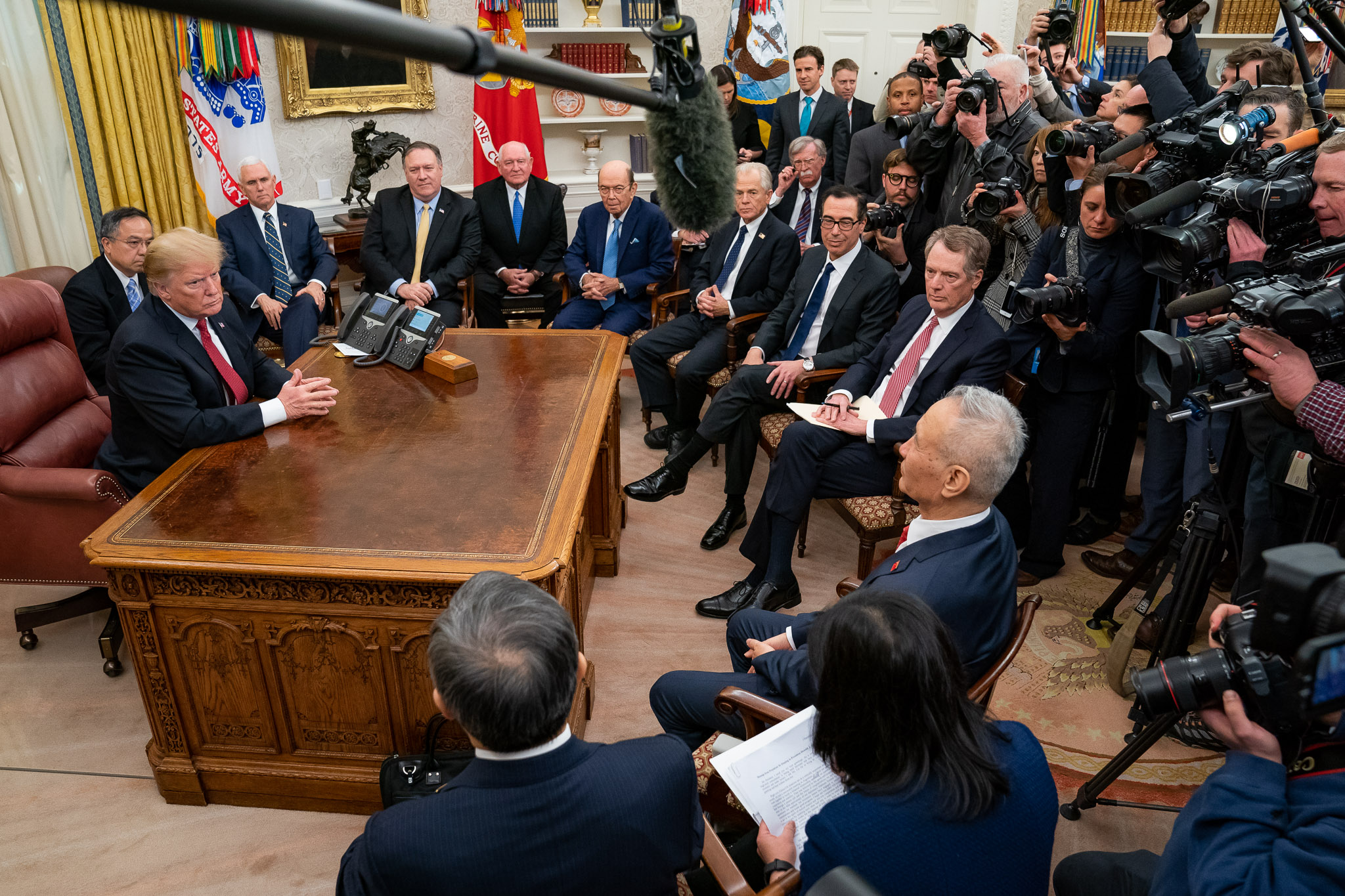 President Donald J. Trump, joined by Vice President Mike Pence, United States Trade Representative Ambassador Robert Lighthizer and Cabinet members, welcomes Chinese Vice Premier Liu He Thursday, Jan. 31, 2019, to the Oval Office of the White House, following two-days of U.S. – China trade talk. (Official White House Photo by Tia Dufour)